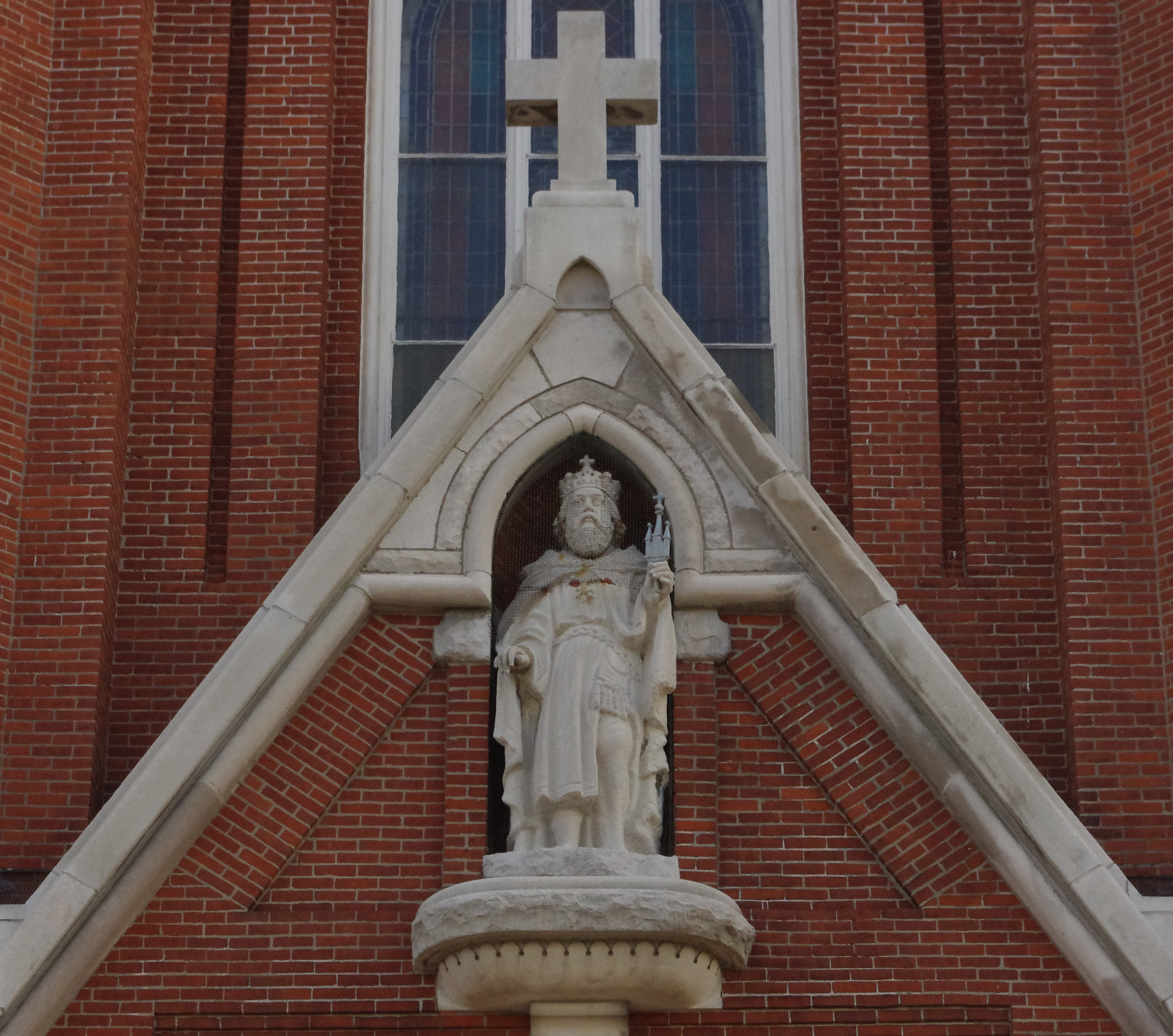 Saint Henry Catholic Church in St. Henry, Ohio; detail of the exterior; The granite statue of St. Henry is by sculptor Herman Broughman of Cincinnati.